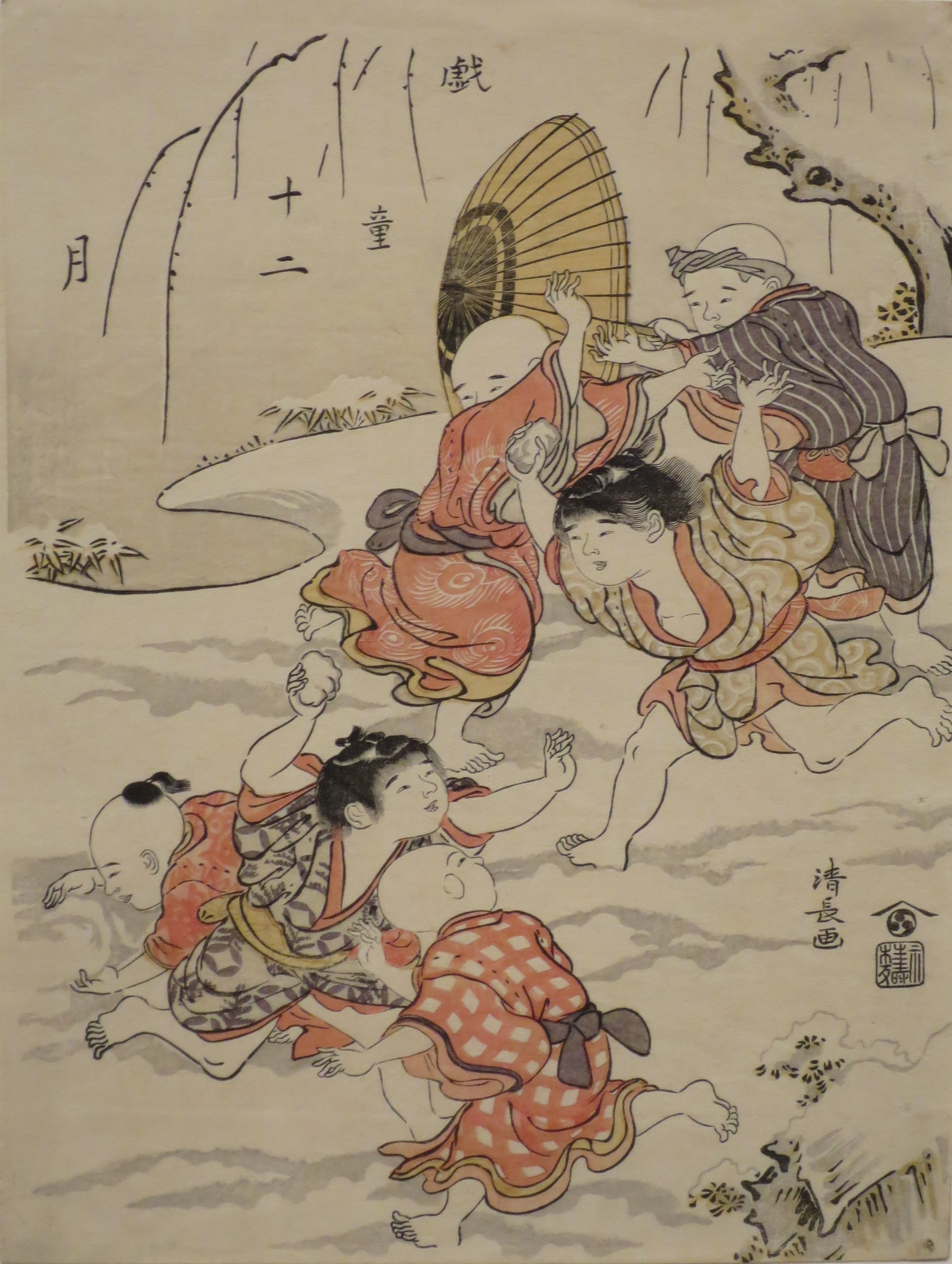 Snowball Fight, by Torii Kiyonaga, from the series Children at Play in Twelve Months, 1787, woodblock print, Honolulu Museum of Art, accession 15966